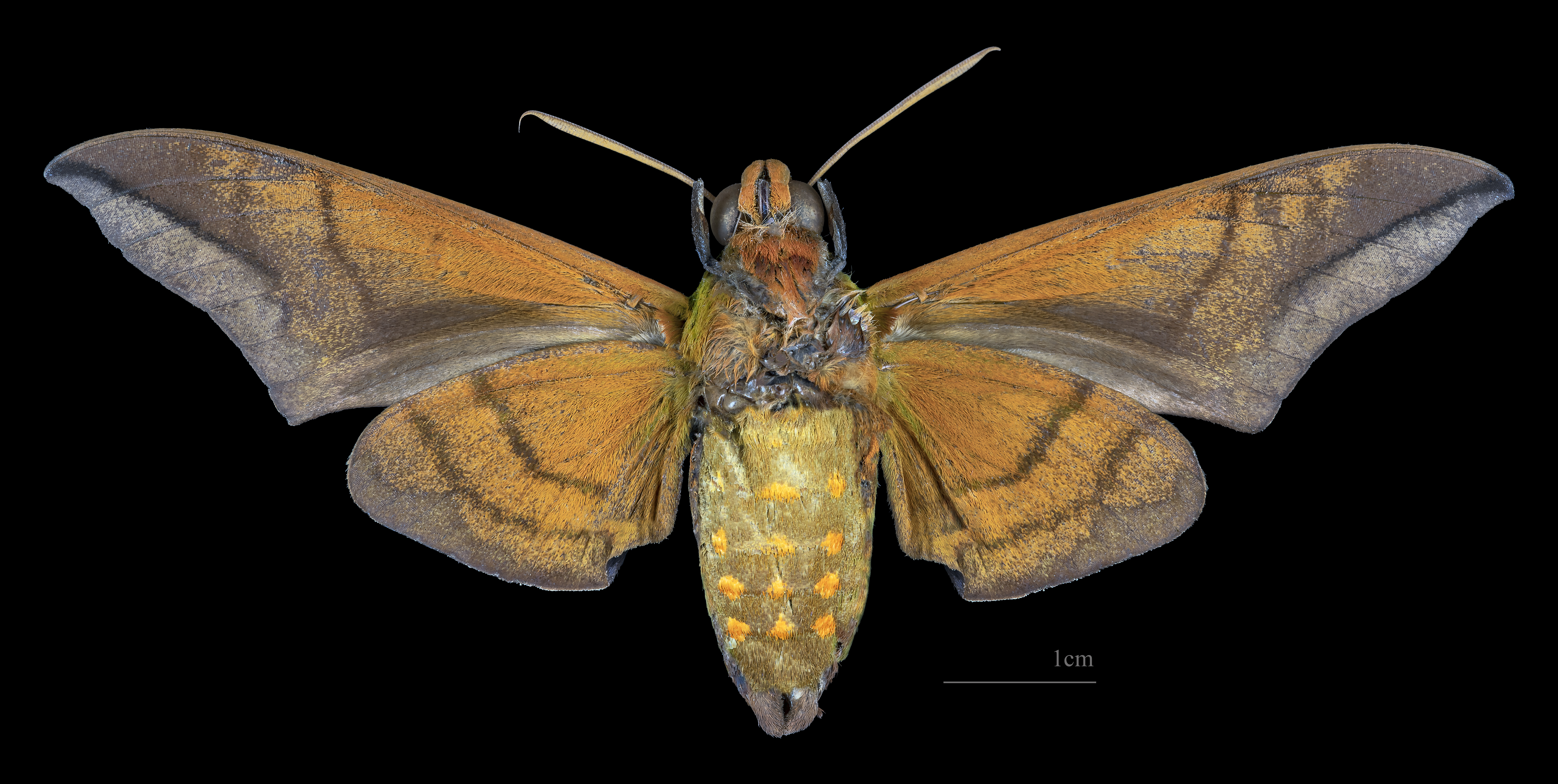 Oryba achemenides -△ Ventral side Collection of the Mathematician Laurent Schwartz